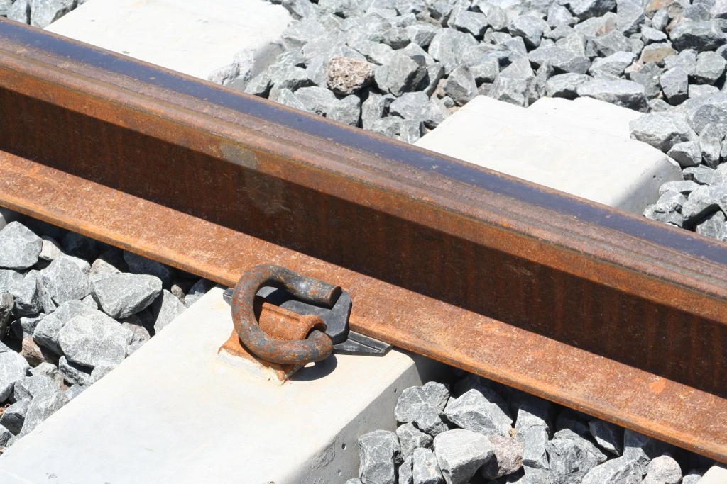 Pandrol clip holding rail to concrete sleeper